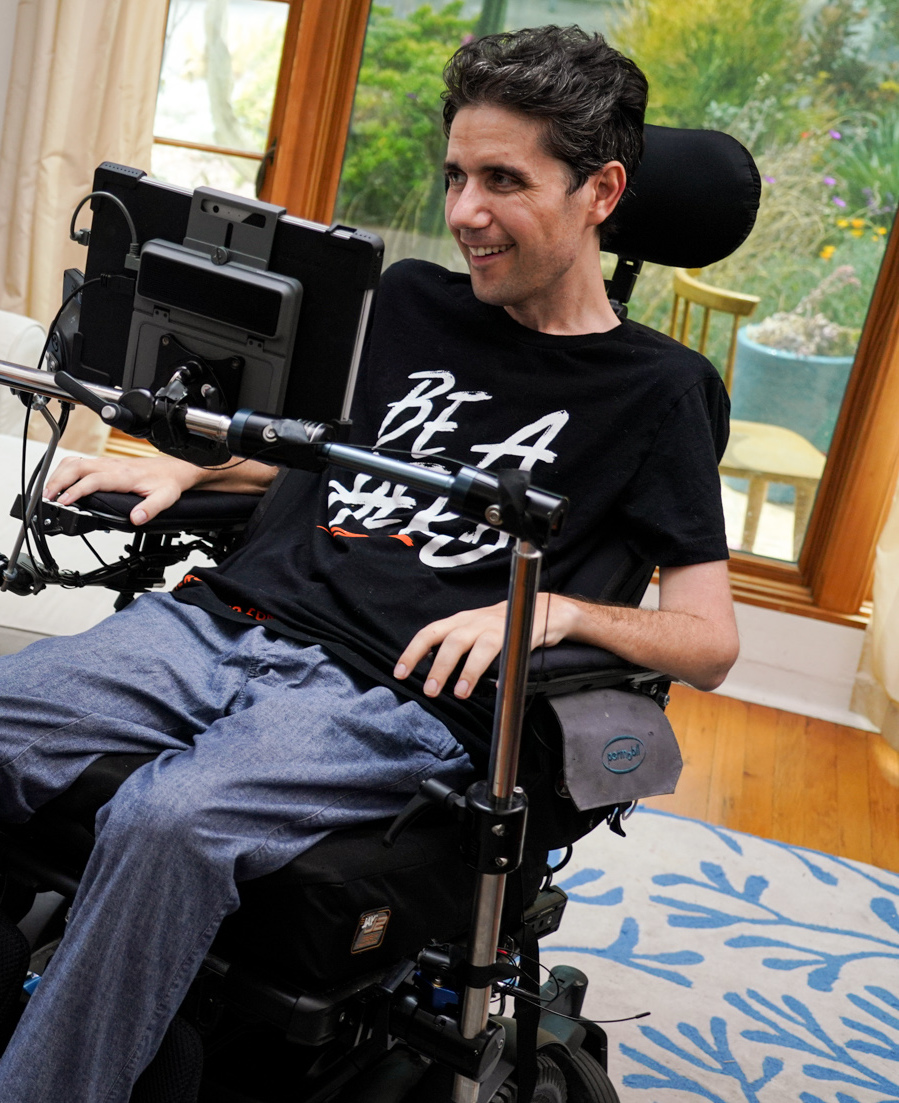 July 22, 2019